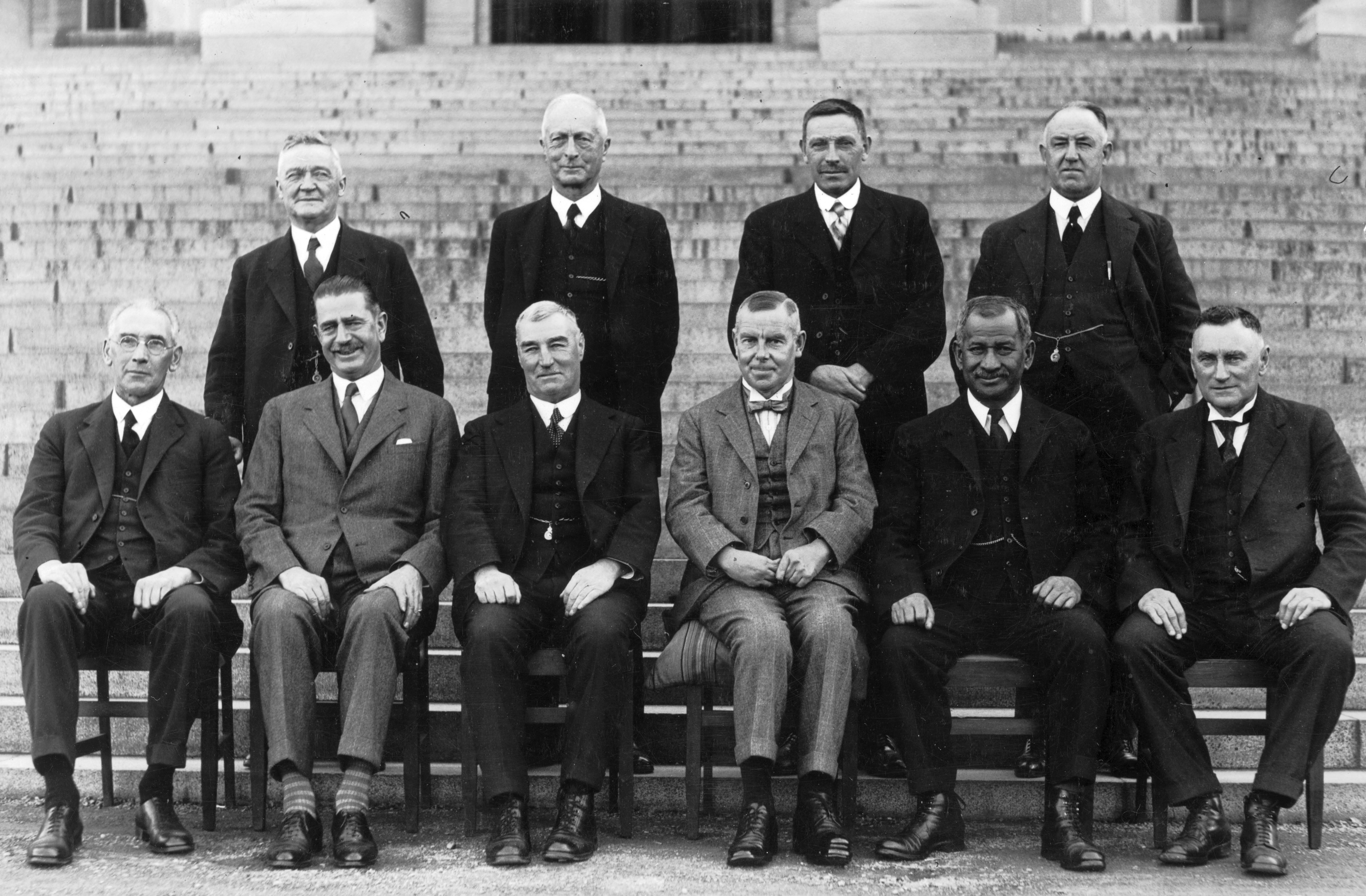 Group portrait of members of the Coalition Cabinet of 1931. In the front row are (L-R): Ethelbert Ransom, Gordon Coates, George William Forbes, William Downie Stewart (Sr.), Apirana Ngata and James Alexander Young. In the back row are (L-R): David Jones, John Cobbe, Adam Hamilton and Robert Masters. Taken by an unidentified photographer in 1931.